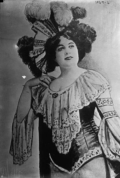 Belle Elmore (Kunigunde Mackamotzki, a.k.a. Cora Turner, a.k.a. Cora Motzki, a.k.a. Mrs. Hawley Harvey Crippen), murdered wife of Dr. Hawley Harvey Crippen